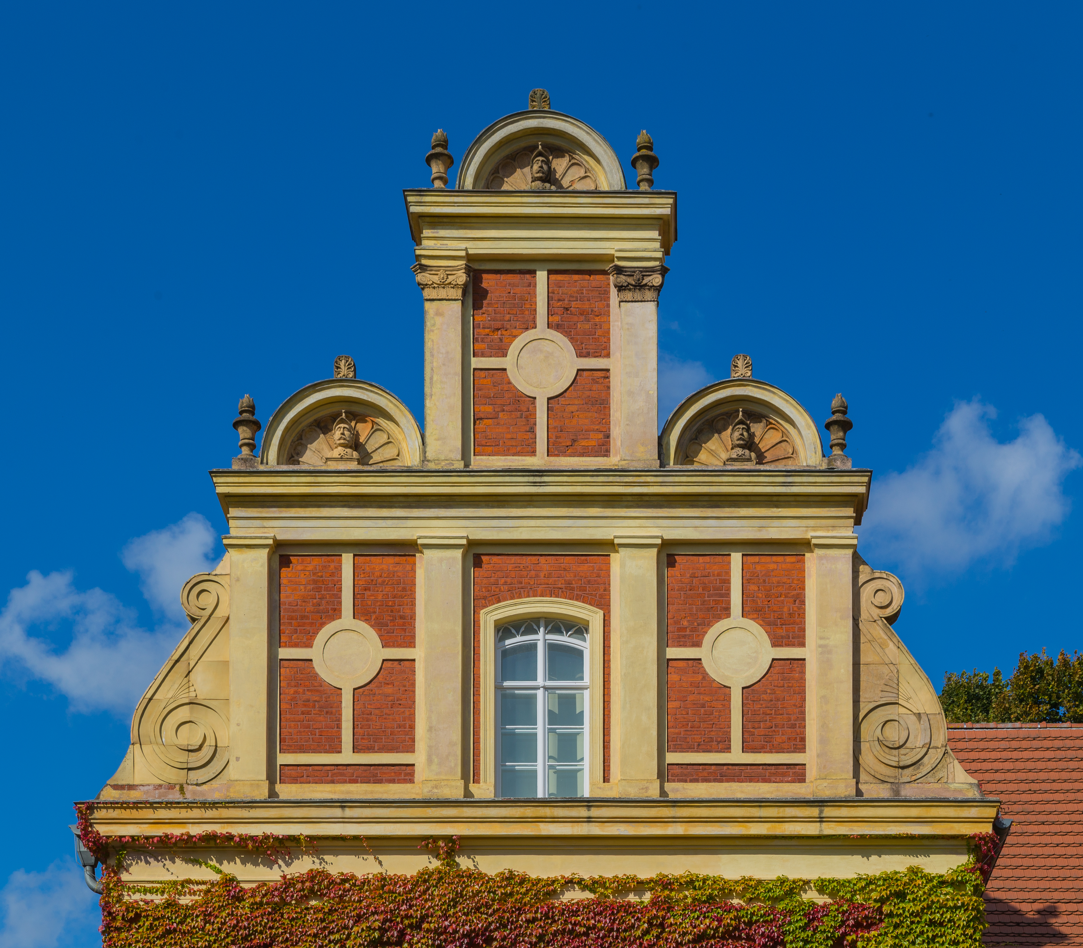 Gable of Meyenburg Castle (Schloss Meyenburg) in Meyenburg, Landkreis Prignitz, Brandenburg, Germany.